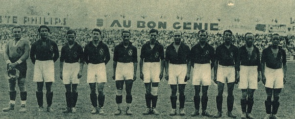 Servette at the Coupe des Nations 1930